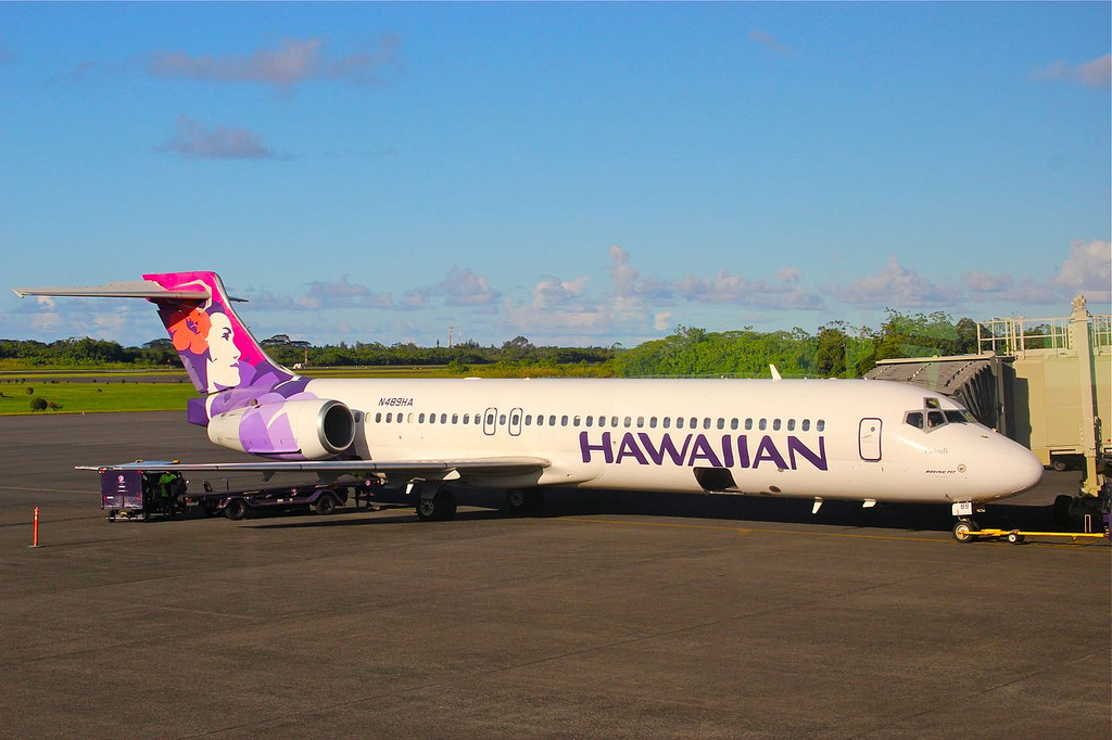 A Hawaiian Airlines Boeing 717 at Hilo International Airport's jetway.